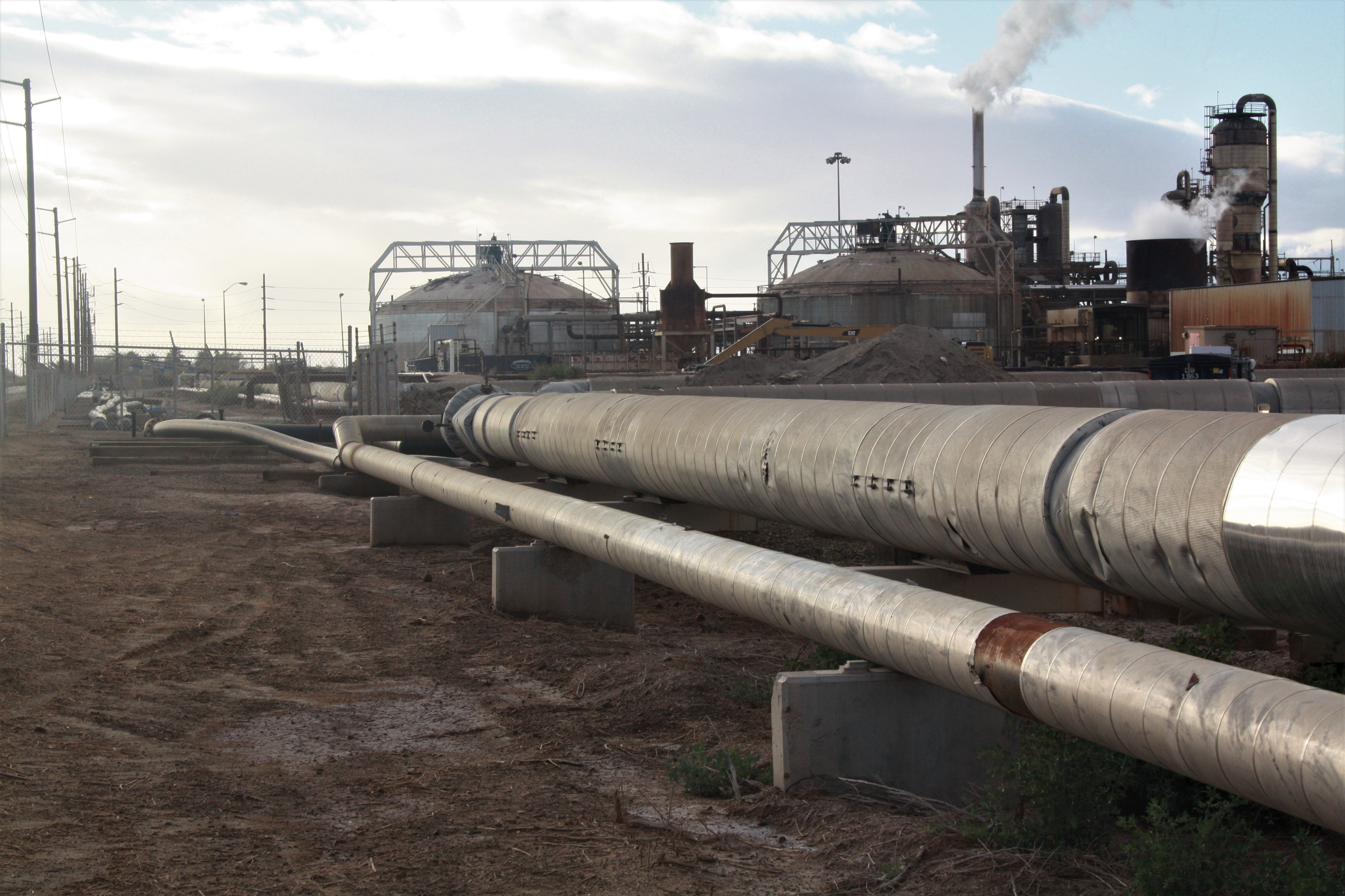 A geothermal energy plant near the Salton Sea, California. Taken with a Canon Rebel XSI. This plant is operated by Salton Sea Power Generation LLC. The image provides an external view of an operational geothermal energy plant including a section of water pipes and steam exhaust in the background.